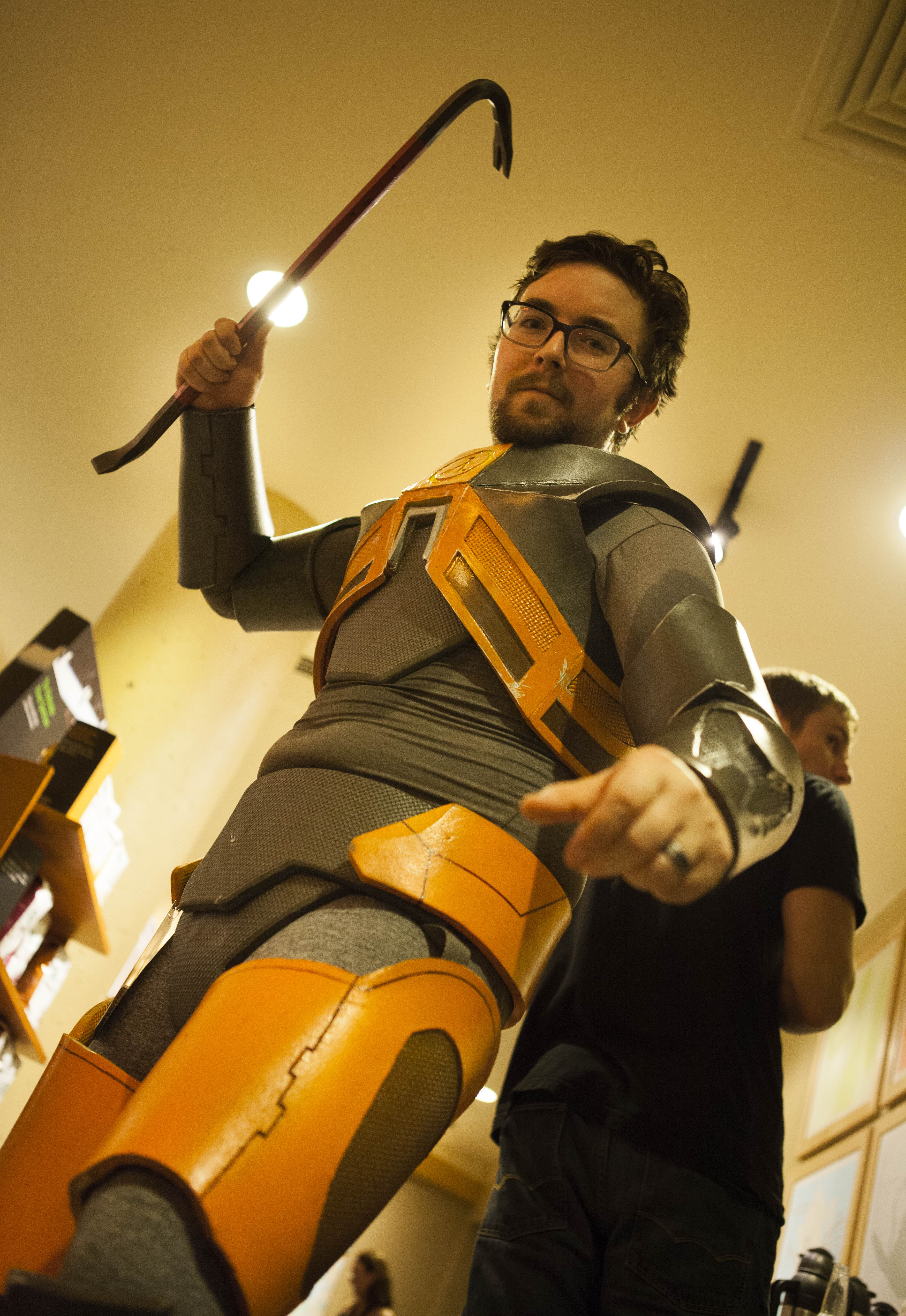 Cosplay of Gordon Freeman from Half-Life at DragonCon 2012.